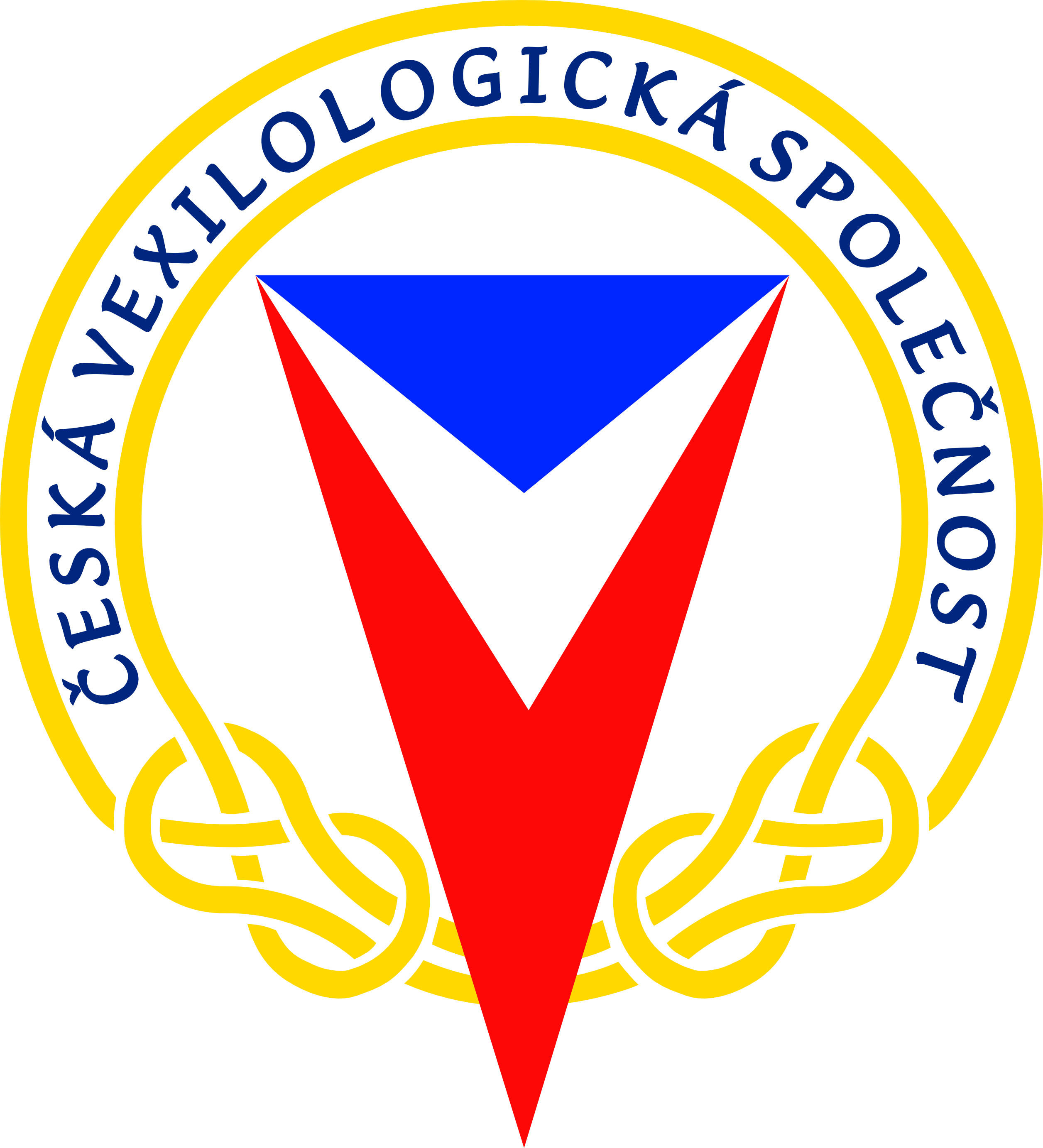 Emblem of CVS